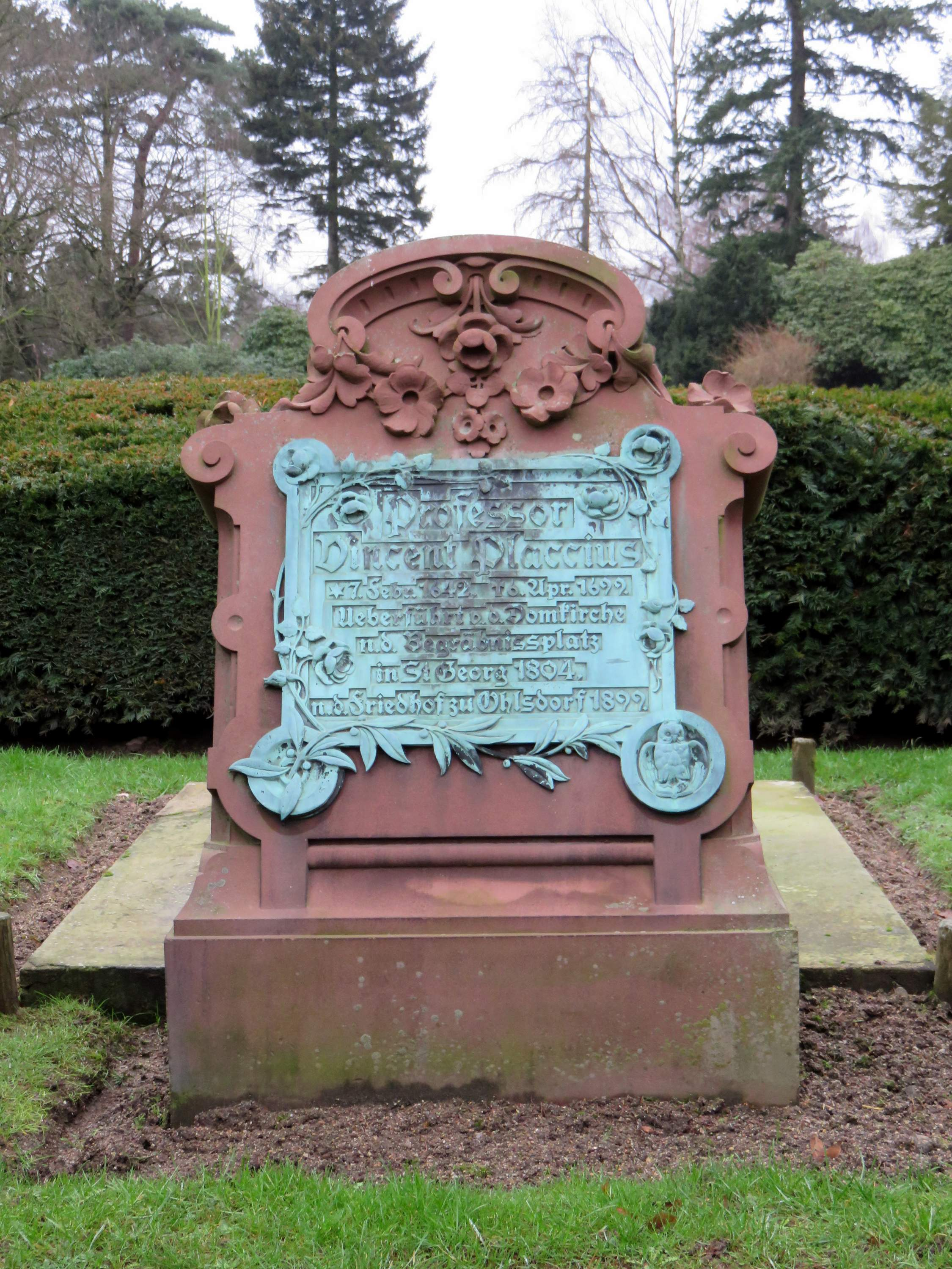 Lage des Grabmals (Platte ((1804)und senkrechte Tafel (1899)) zu Ehren des Hamburger Gelehrten Vincent Placcius im Bereich des Althamburgischen Gedächtnisfriedhofs auf dem Hamburger Friedhof Ohlsdorf, Längsachse nordwestliche Seite (Planquadrat P 6 Grab 8). Details: Barbara Leisner, Heiko K. L. Schulze, Ellen Thormann: Der Hamburger Hauptfriedhof Ohlsdorf. Geschichte und Grabmäler. 2 Bände und eine Übersichtskarte 1:4000. Hans Christians, Hamburg 1990, ISBN 3-7672-1060-6, S. 21, Kat. No. 48.